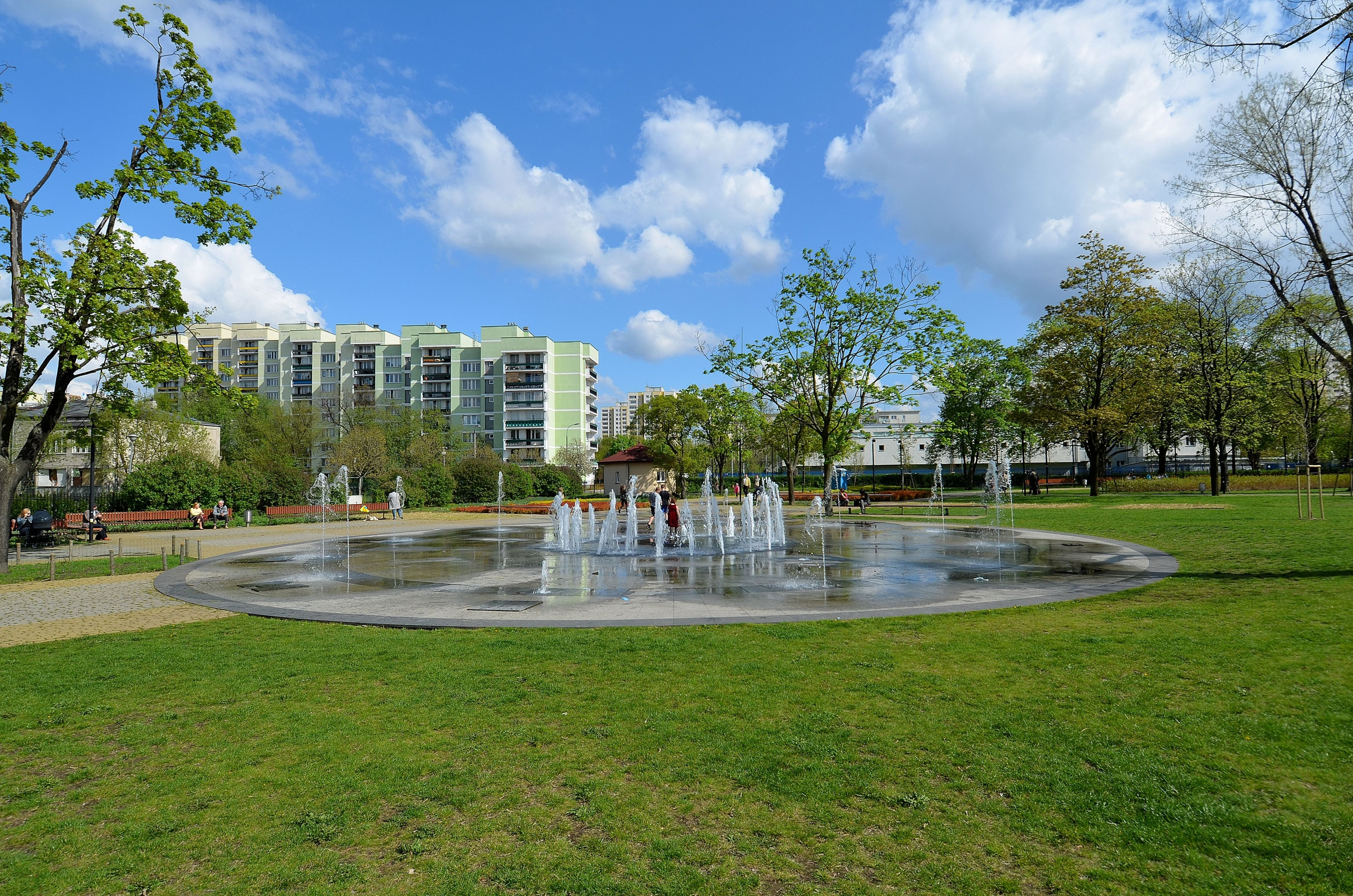 Znicza Park in Warsaw